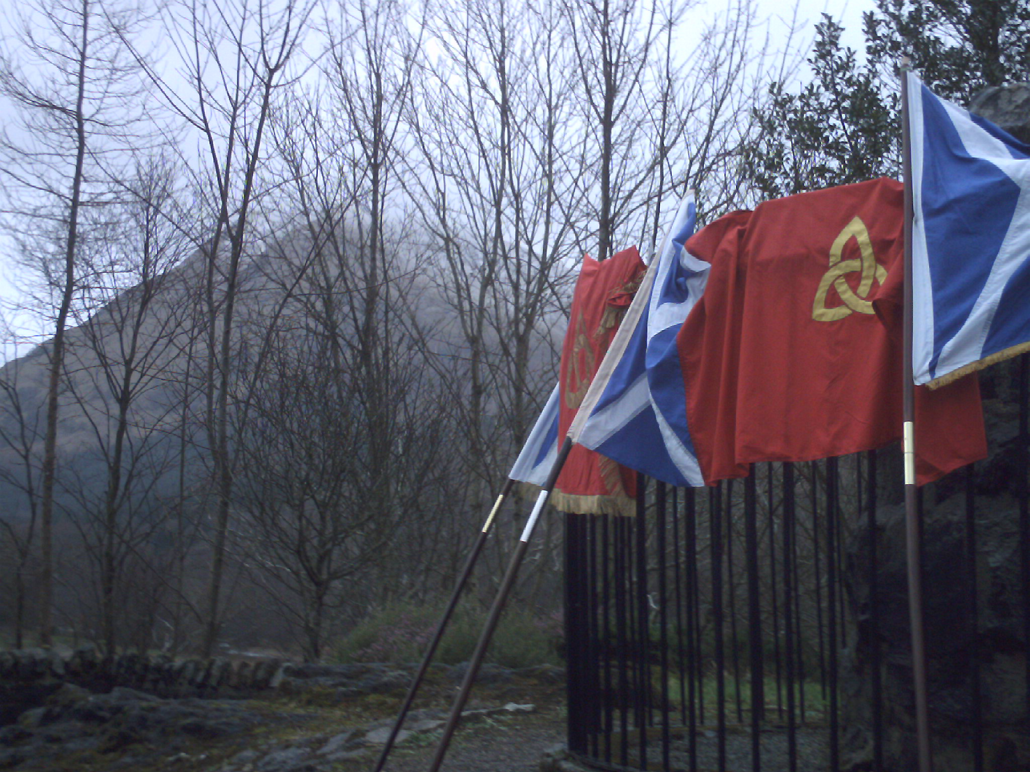 The SRSM commemorates the Massacre. Glencoe commemoration.